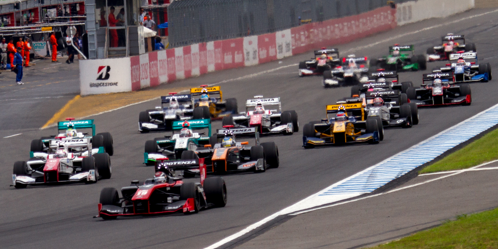 Super Formula 2014 Rd.4 Motegi: opening lap